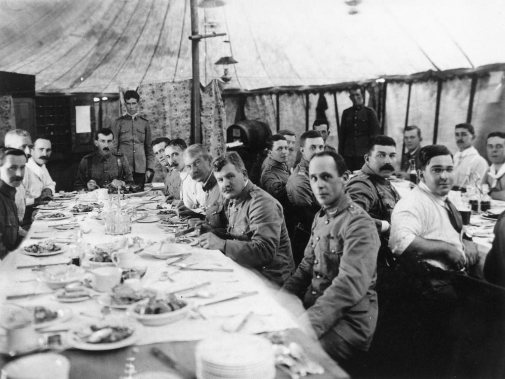 Inside the officer's mess tent at Lytton, Brisbane, Queensland Officers of the Moreton Regiment at Lytton.